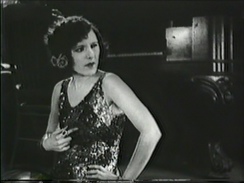 Georgia Hale from "The Gold Rush".